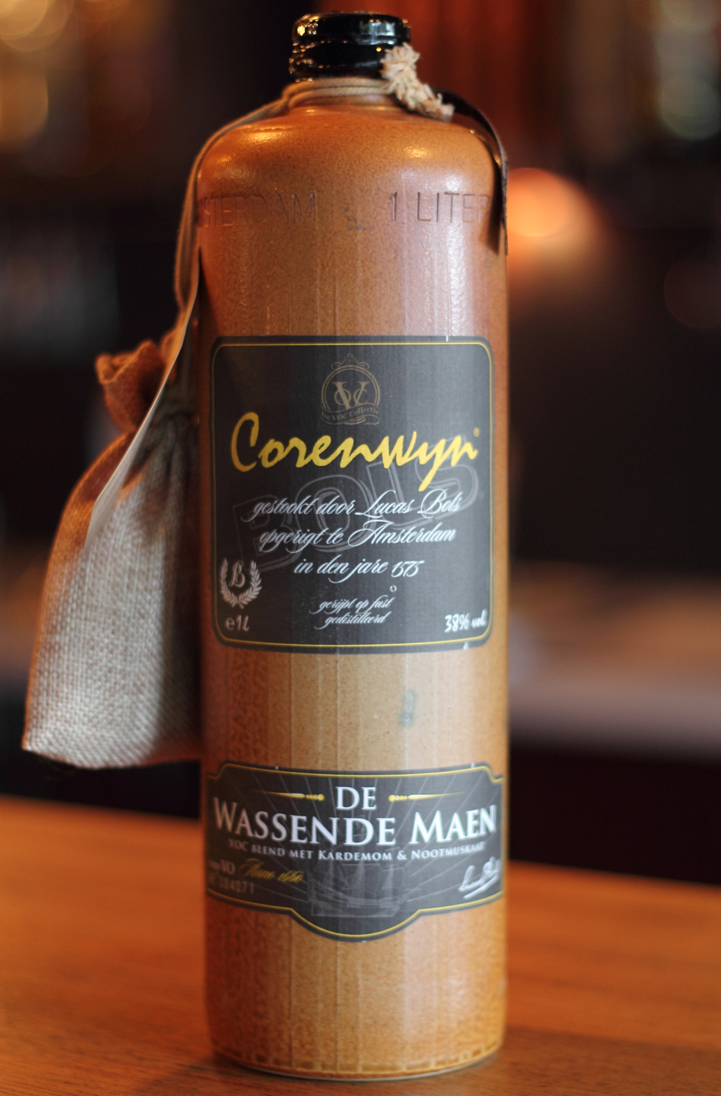 A bottle of spiced Genever - Bols Corenwyn De Wassende Maen.